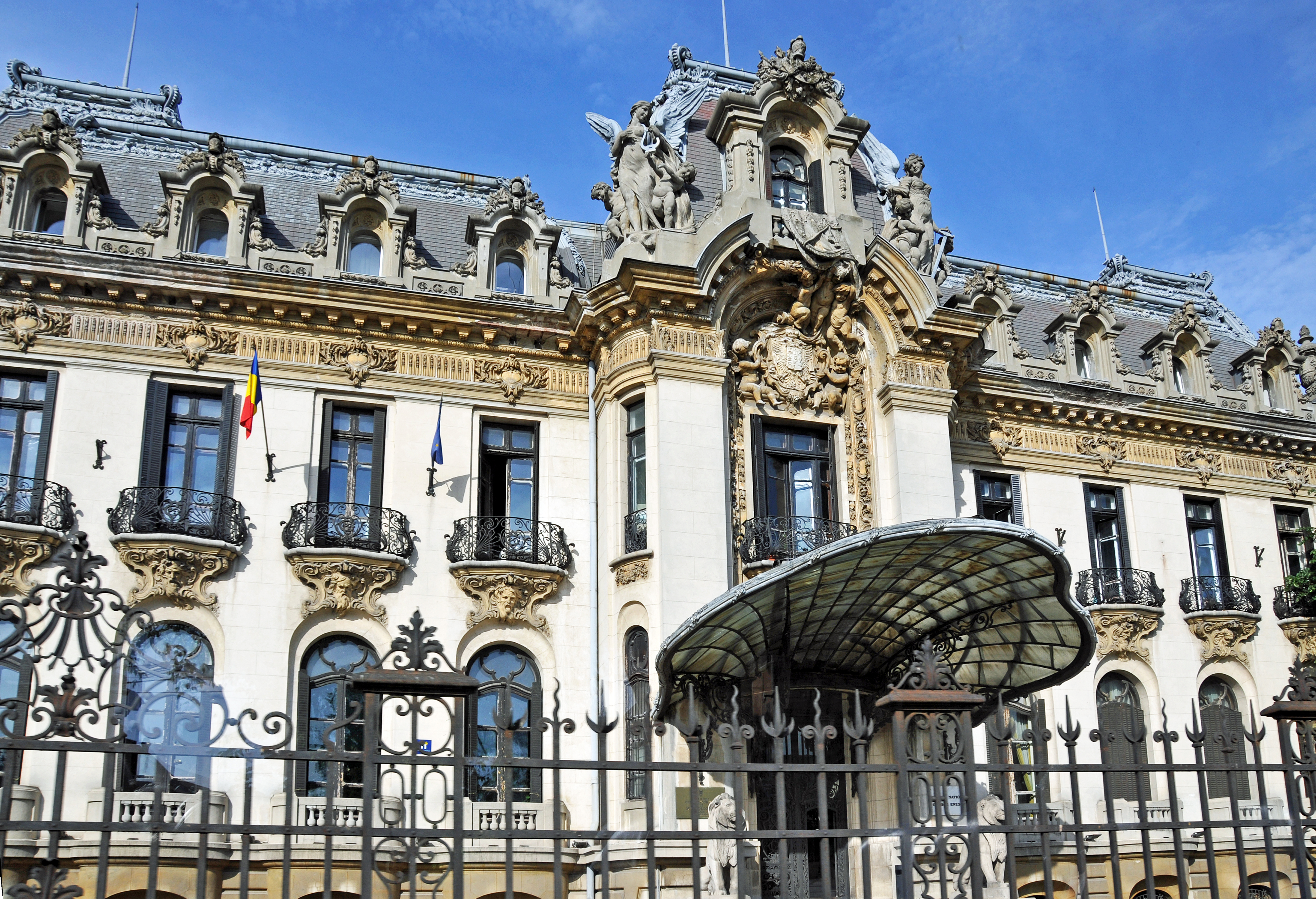 PLEASE, no multi invitations, glitters or self promotion in your comments, THEY WILL BE DELETED. My photos are FREE for anyone to use, just give me credit and it would be nice if you let me know, thanks - NONE OF MY PICTURES ARE HDR. National Museum "George Enescu" Cantacuzino Palace is one of the most beautiful buildings in Bucharest. Another bus shot.....